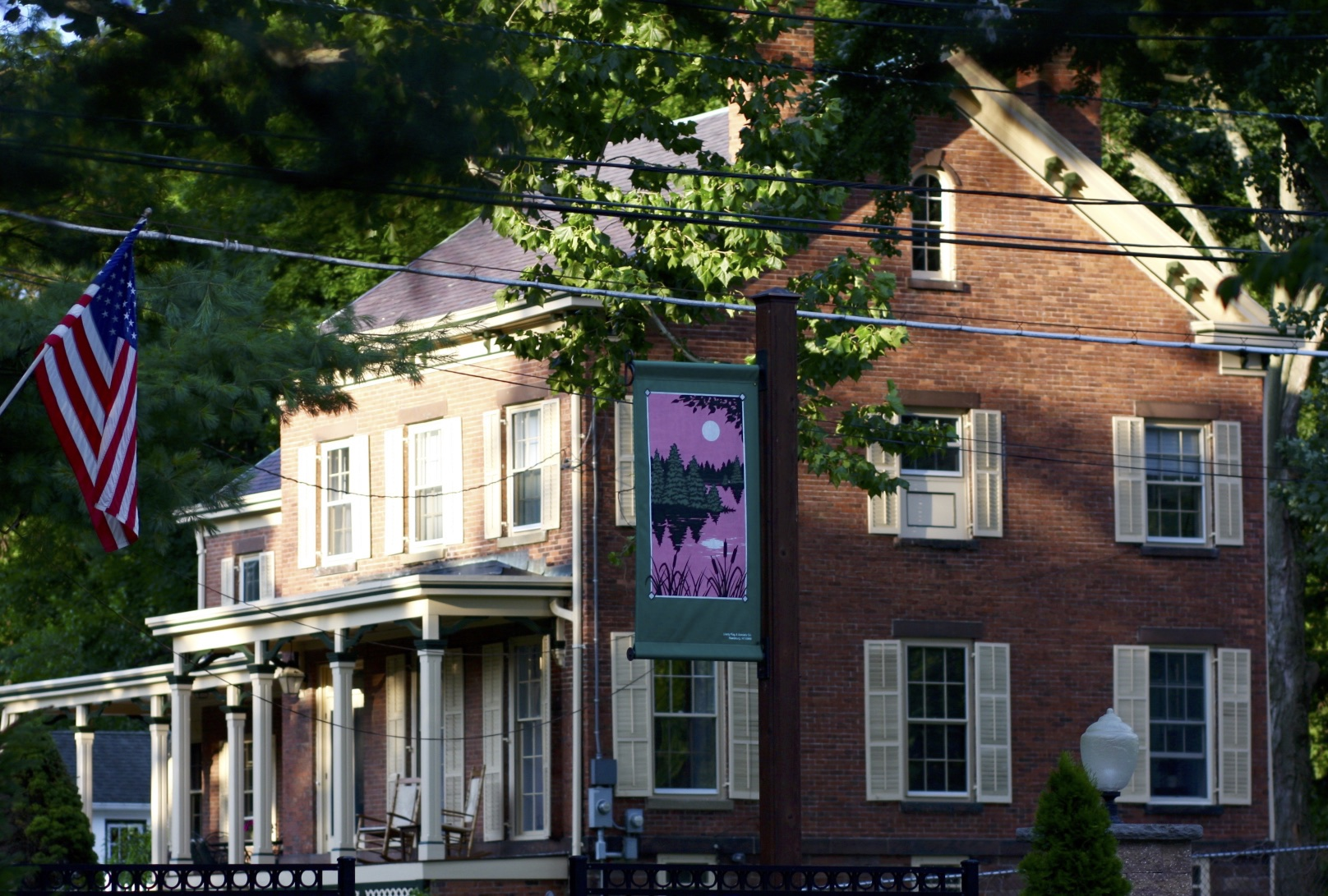 The manse in 2015 after a renovation of the interior.